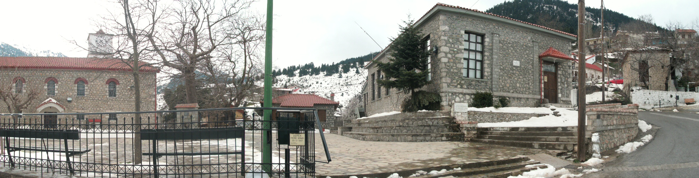 KALOSKOPI MARCH 2010